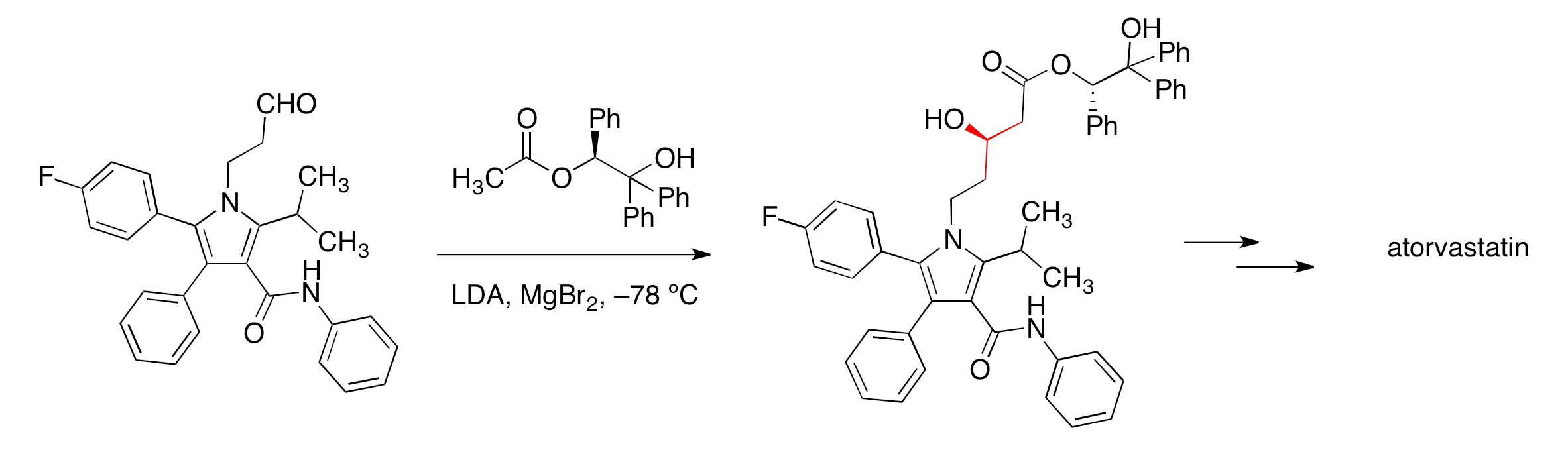 Atorvastatin synthesis during discovery chemistry. The key step establishing a stereocenter in the apparent first enantioselective route to atorvastatin, making use of a chiral ester auxiliary to set the stereochemistry of the first alcohol functional group via a diastereoselective aldol reaction. Associated REF B.D. Roth , C.J. Blankley , A.W. Chucholowski , E. Ferguson , M.L. Hoefle , D.F. Ortwine , R.S. Newton , C.S. Sekerke , D.R. Sliskovic , M. Wilson (1991). "Inhibitors of Cholesterol Biosynthesis. 3. Tetrahydro-4-hydroxy-6-[2-(1H-pyrrol-1-yl)ethyl]-2H-pyran 2-one Inhibitors of HMG-CoA Reductase. 2. Effects of Introducing Substituents at Positions Three and Four of the Pyrrole Nucleus". J. Med. Chem. 34: 357–366. Created by dividing/cropping original image File:Atorvastatin_routes.png of User:Jammercer. NOTE: Integrity of information contained in the image is judged reasonable by this expert, but this citation was not actually contained in the source file, and image details were not checked against this inferred source. Use source and image only with verification of content for each intended purpose. Le Prof